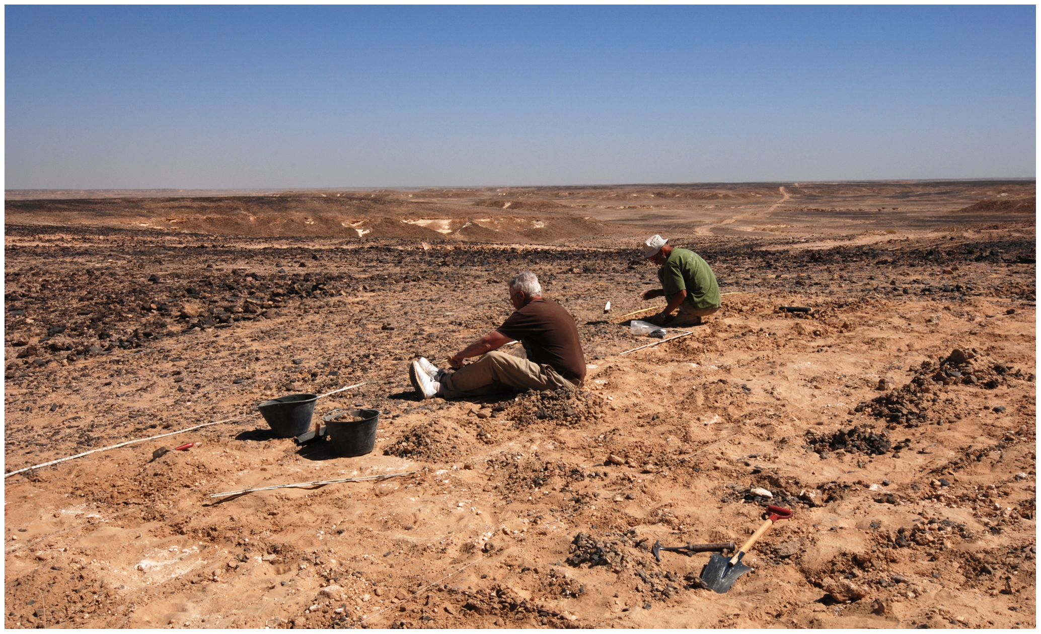 Figure 11. Photo of Aybut Ath Thani. DAP team systematically collects surface material from gridded area with view overlooking Wadi Aybut in background.